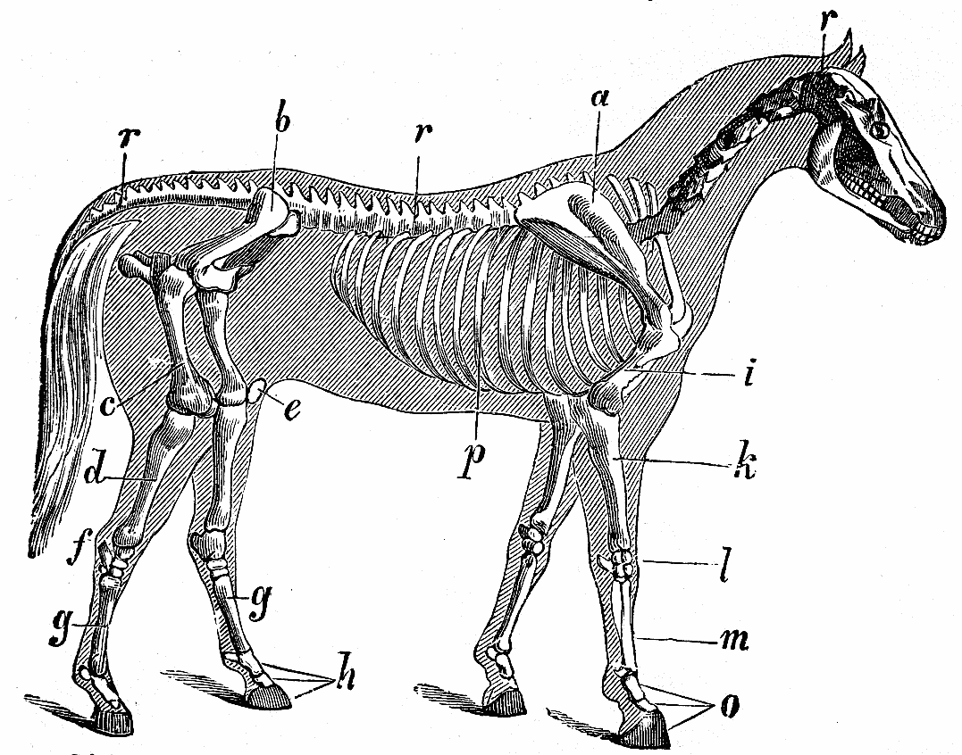 Skeleton of a horse with outline. a: scapula b: pelvis c: thigh d: shank e: knee f: heel g: metatarsus h: toe i: upper arm k: forearm l: wrist m: metacarpus o: toe p: costa r: spinal column